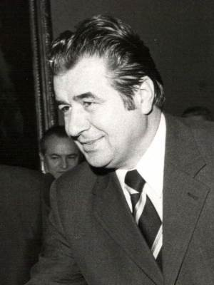 Jon Srbovan is a politician